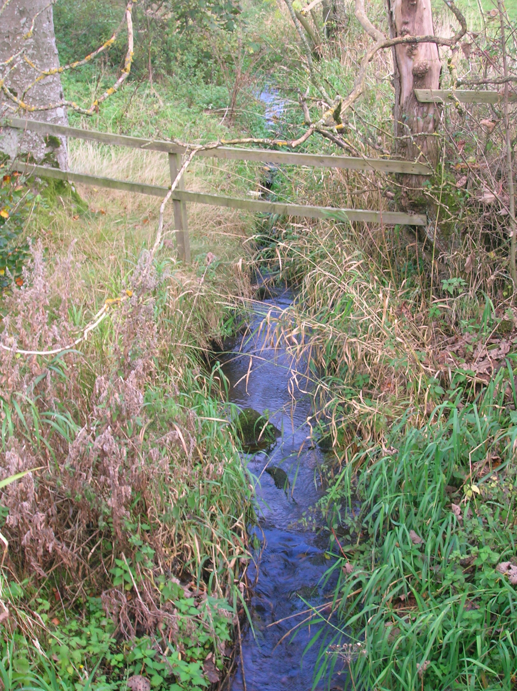 The Garrier Burn at Titwood far, North Ayrshire, Scotland.